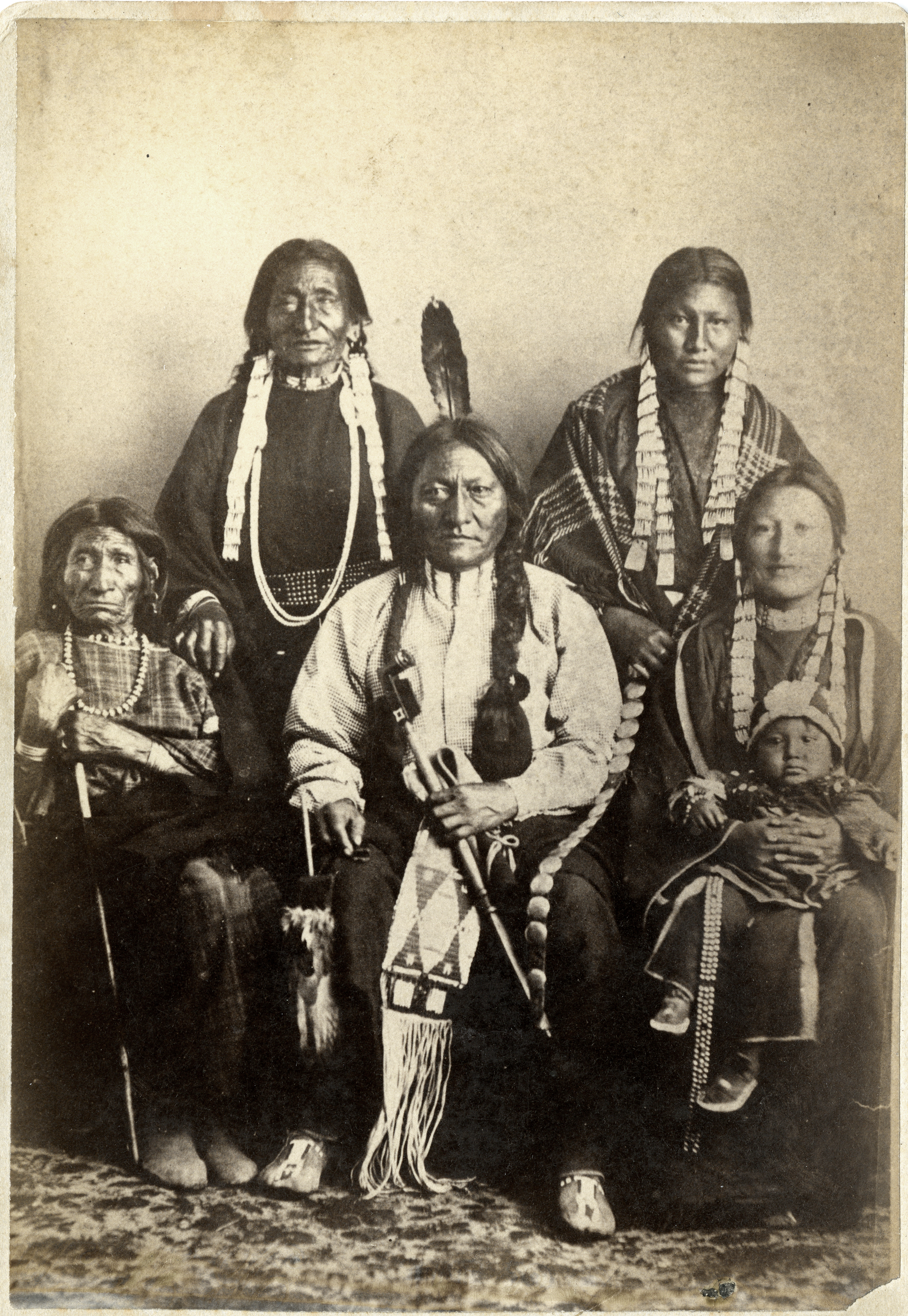 Original text from back of image: "4 generations of Sitting Bull: Sitting Bull, two wives, their daughter, her daughter, her baby""Copy from Mrs. Edward M. Johnson collection Spiritwood, N. Dak." Sitting Bull and family 1882 at Ft Randall rear L-R Good Feather Woman (sister), Walks Looking (daughter) front L-R Her Holy Door (mother), Sitting Bull, Many Horses (daughter) with her son, Courting a Woman